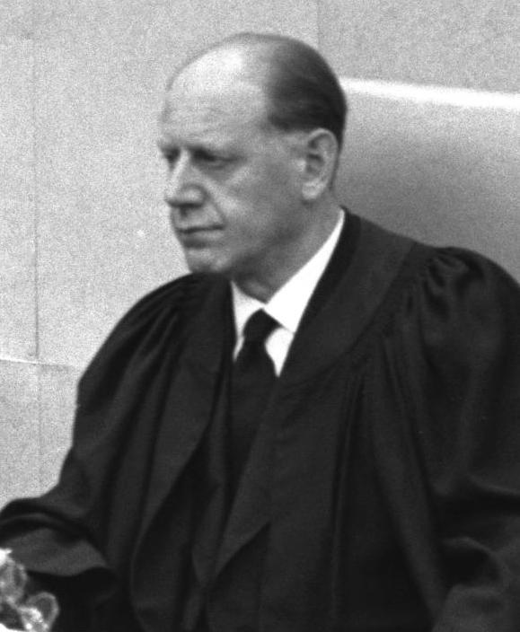 Adolf Eichman's trial judges (left to right) Benjamin Halevi, Moshe Landau, and Yitzhak Raveh